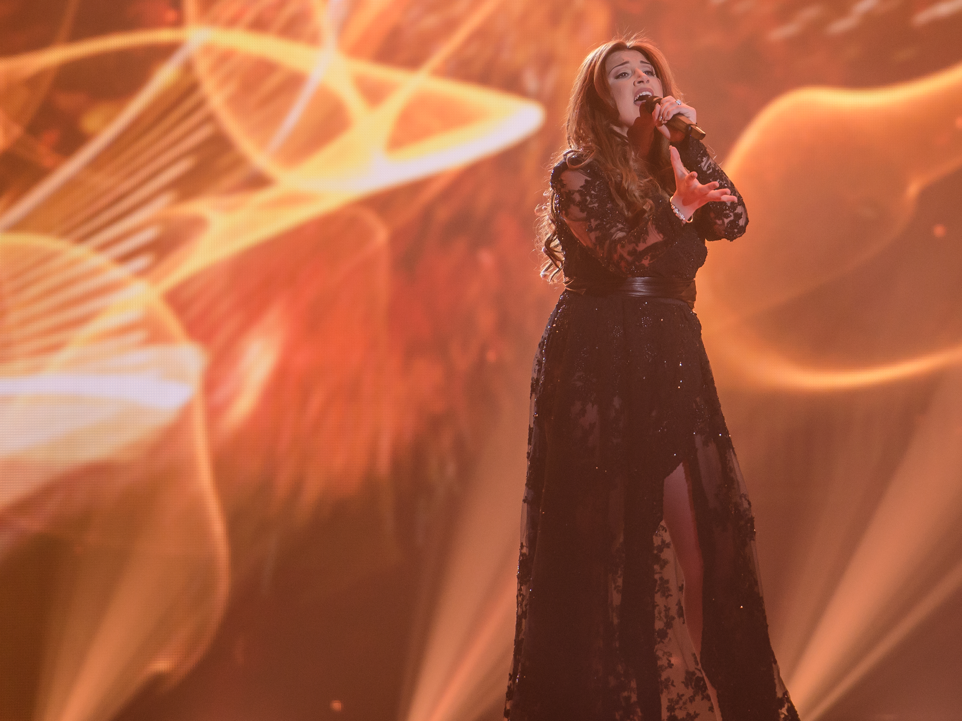 Eurovision Song Contest Vienna 2015: Amber